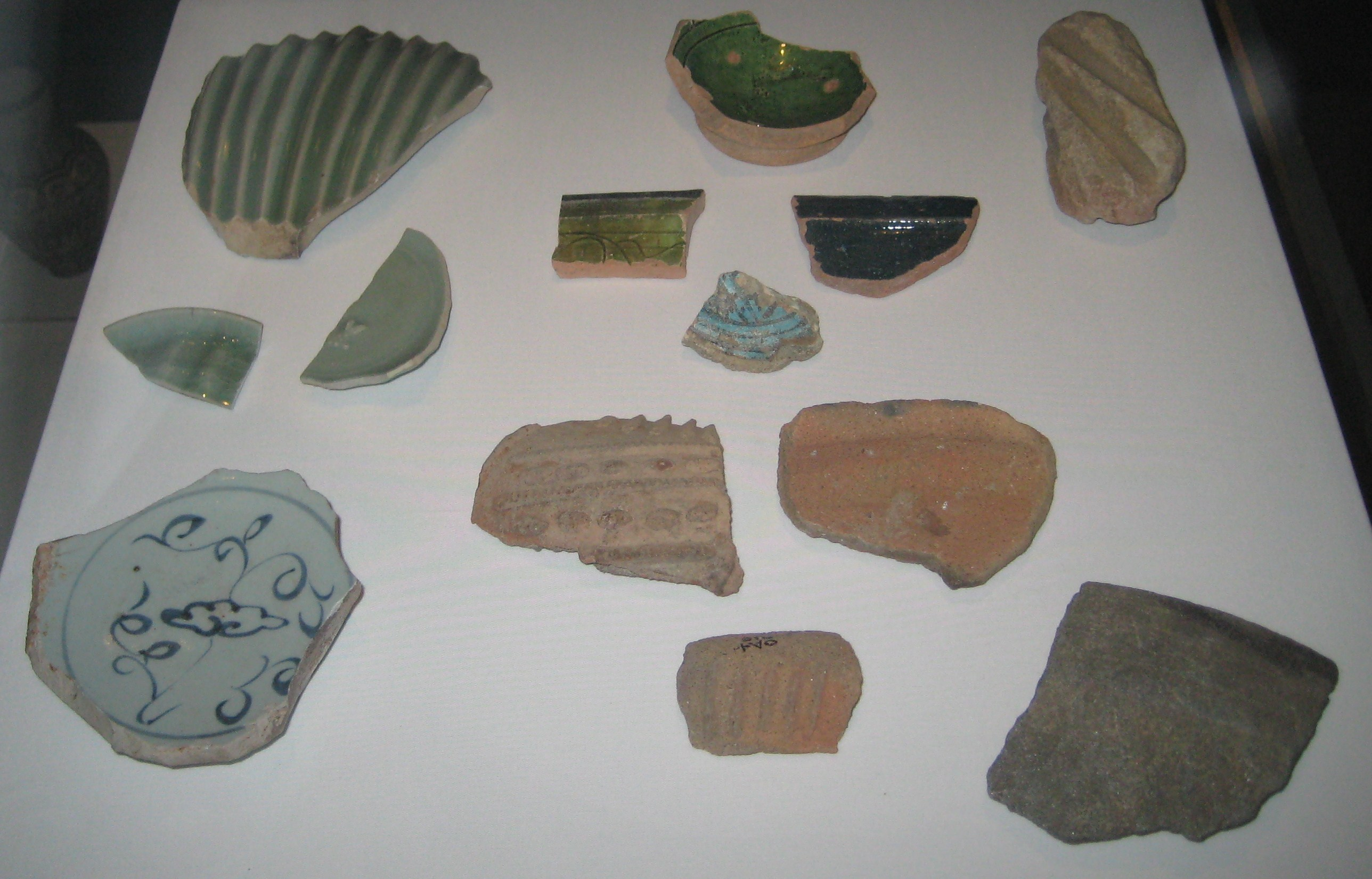 Kilwa pot sherds, Kilwa Kisiwani, Tanzania, about AD 1000 to 1500.